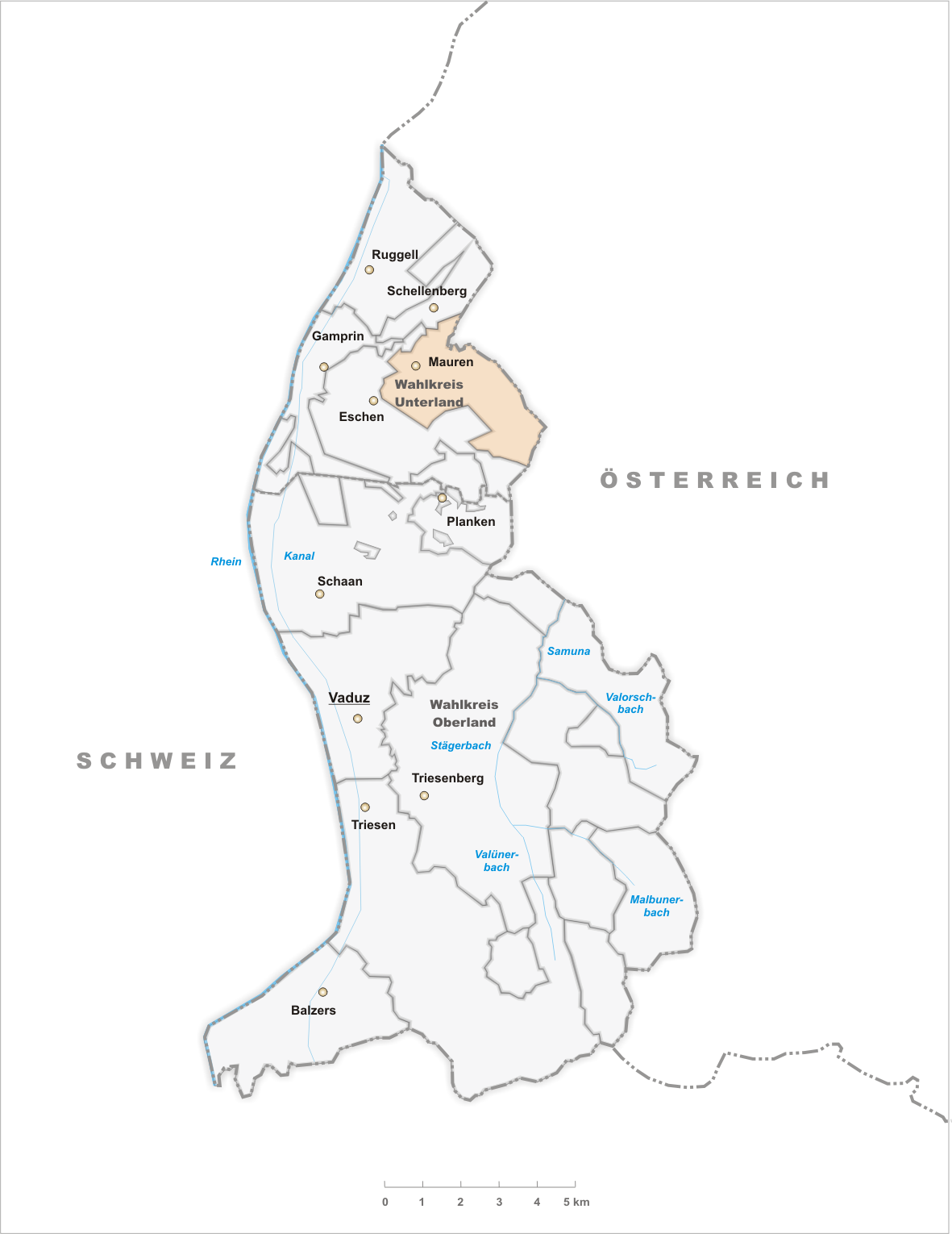 Municipality Mauren